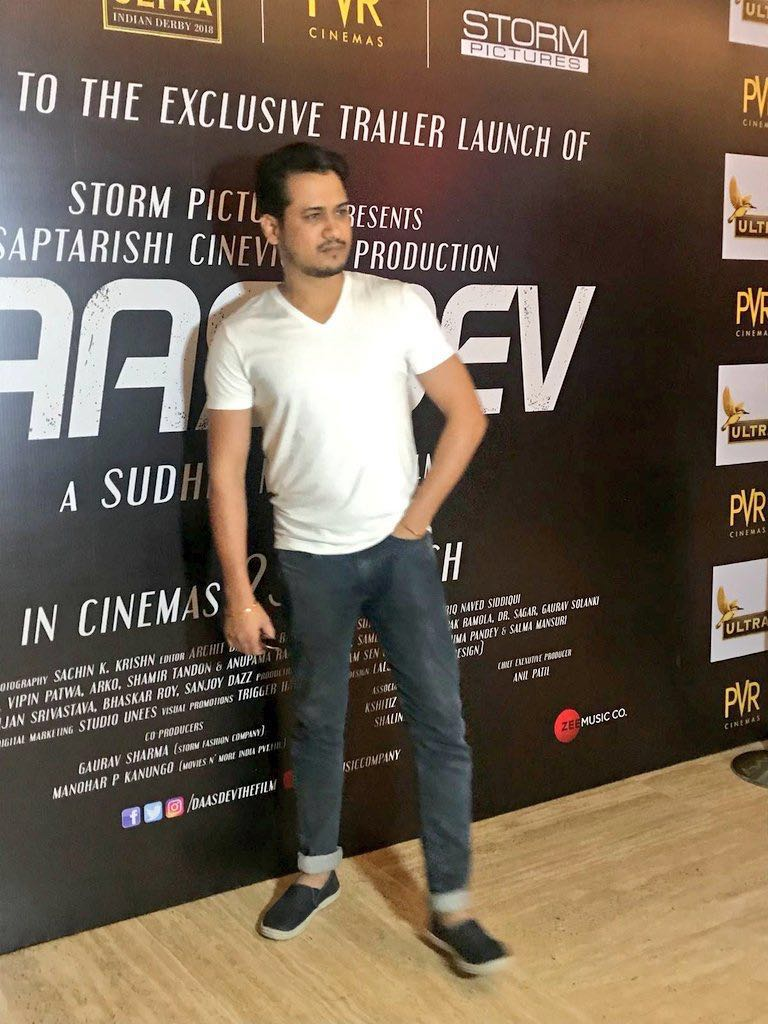 Vipin Patwa at Music Launch of DaasDev